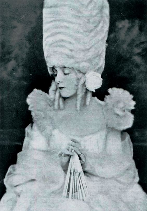 Actress Betty Jewel, on page 9 of the August 1922 Broadway Brevities. The caption states that she had made her film debut in Orphans of the Storm (1921), although she is not credited in the cast of the film.